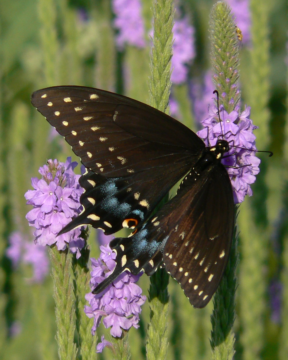 Black Swallowtail